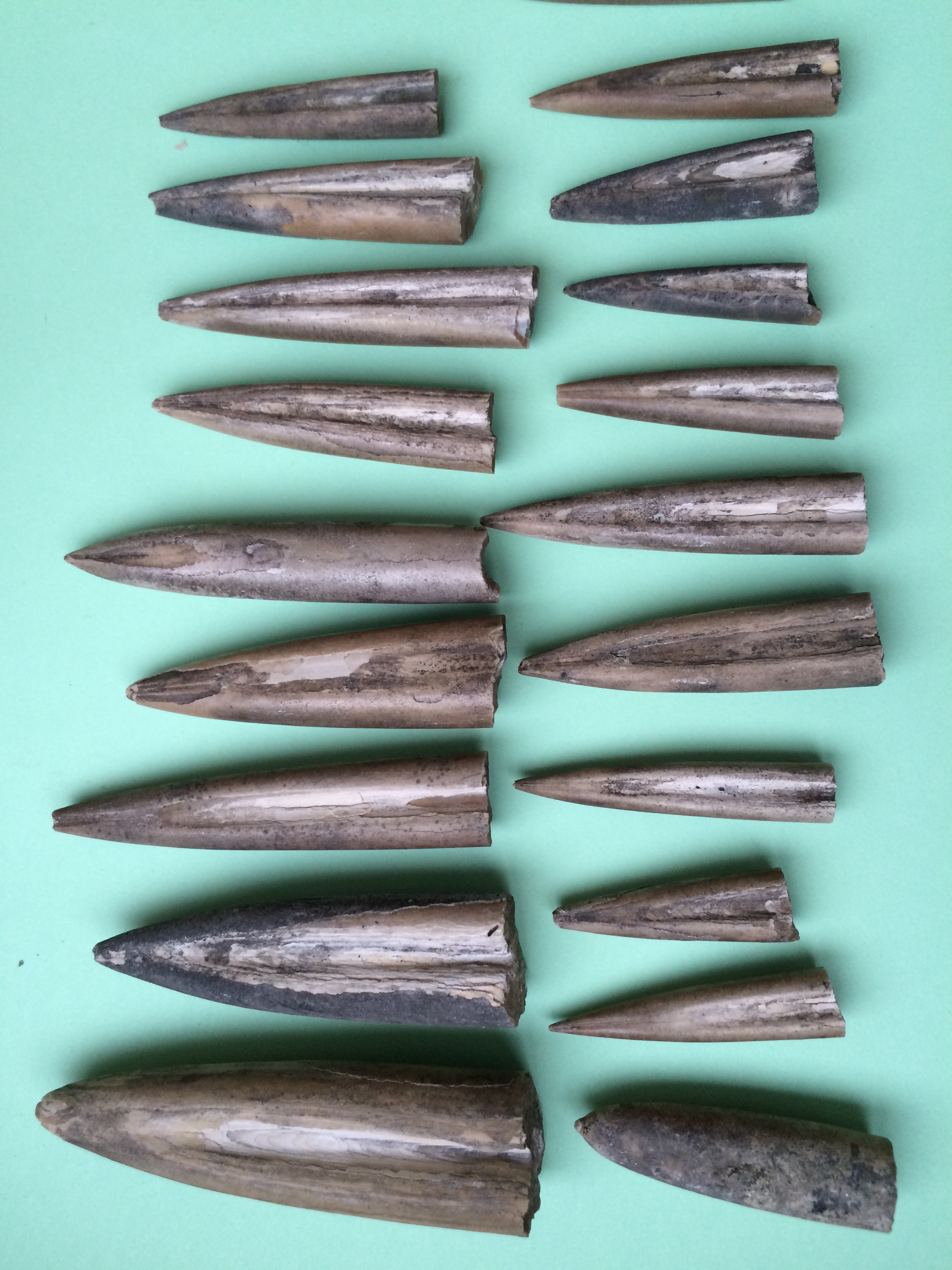 Belemnites from Moscow region